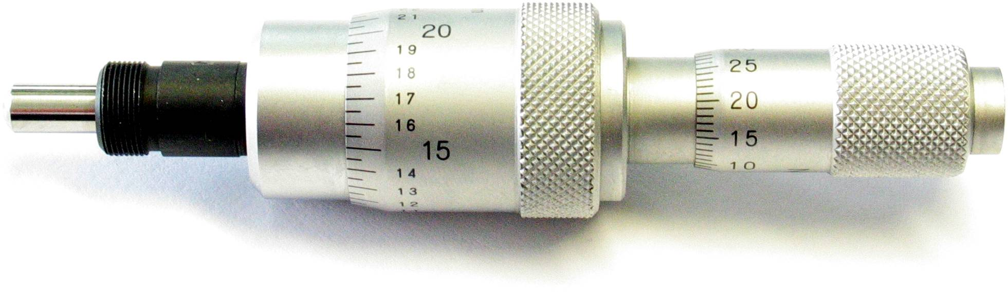 Differential micrometer screw